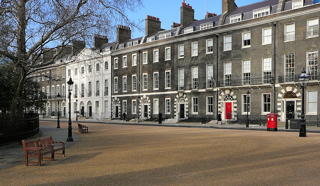 The north side of Bedford Square. The image was taken with a Panasonic Lumix DMC-TZ1.